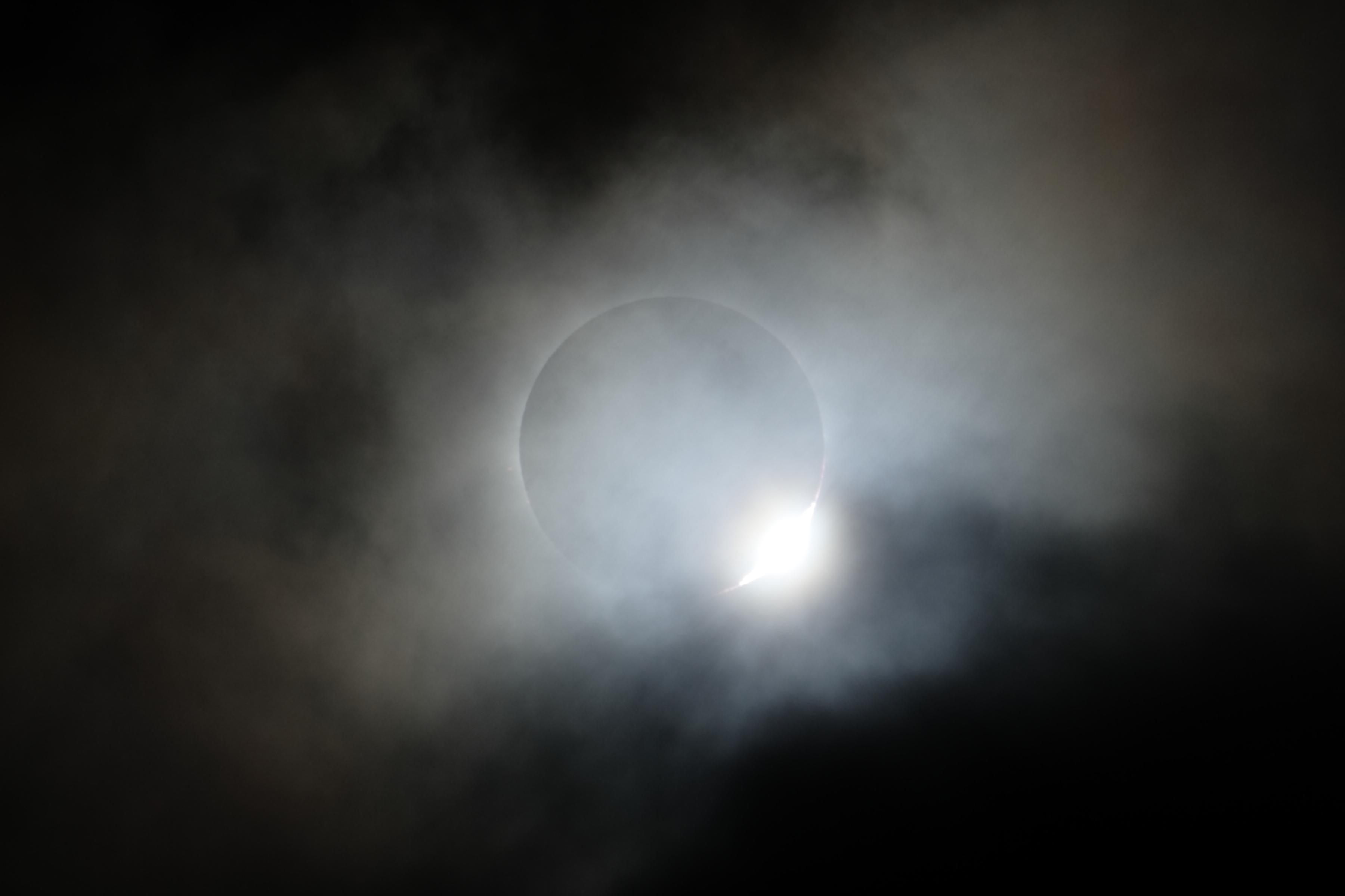 End of totality, 20.03.2015, Photo taken at Skansin, historic fortress in Tórshavn. Exif-Time is CET, not exact.